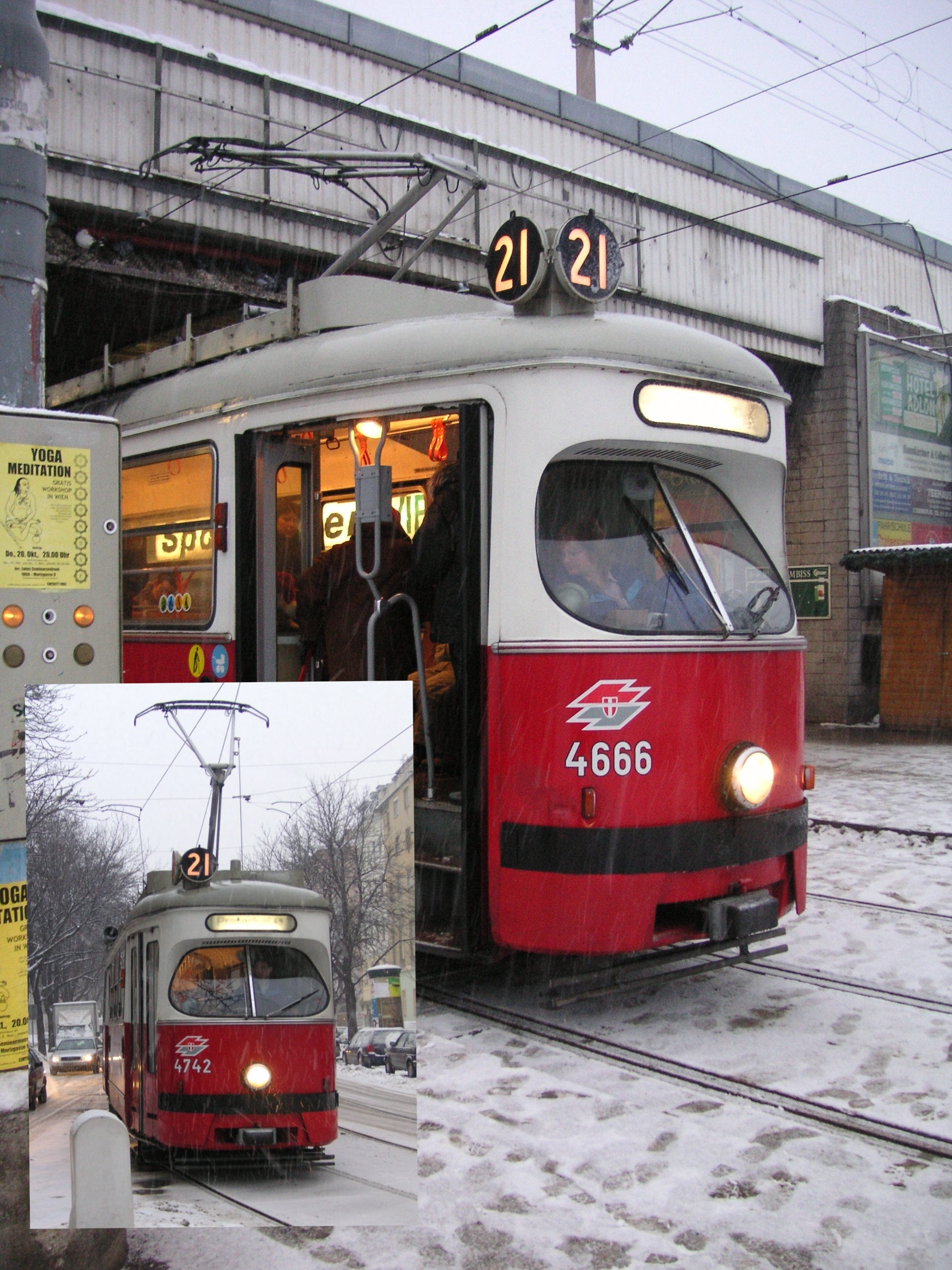 Photo by KF, Vienna, Austria, January 2006.